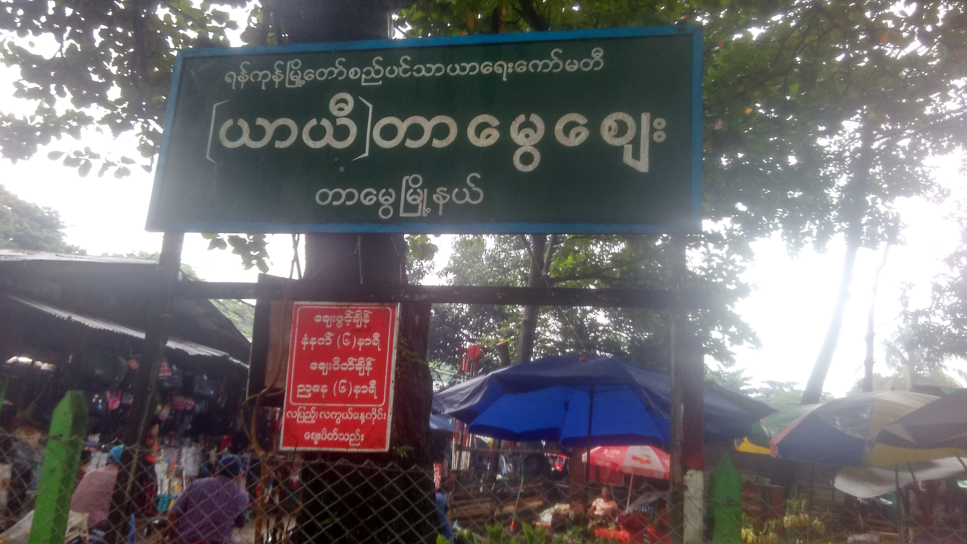 Tamwe Market မြန်မာဘာသာ: တာမွေဈေး၊ တာမွေမြို့နယ်၊ ရန်ကုန်